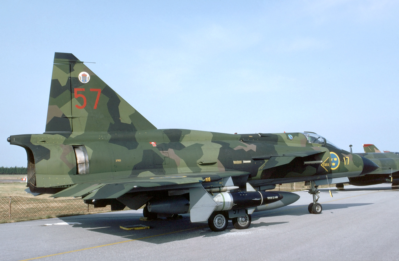 Skrydstrup airshow (Denmark), 28 June 1992. A great show. Some of the hightlights were two Saab Viggens from F 17 (Ronneby). This the SH-37 version (combined air defence and reconnaissance). The other one was a SF-37 (photo reconnaissance).